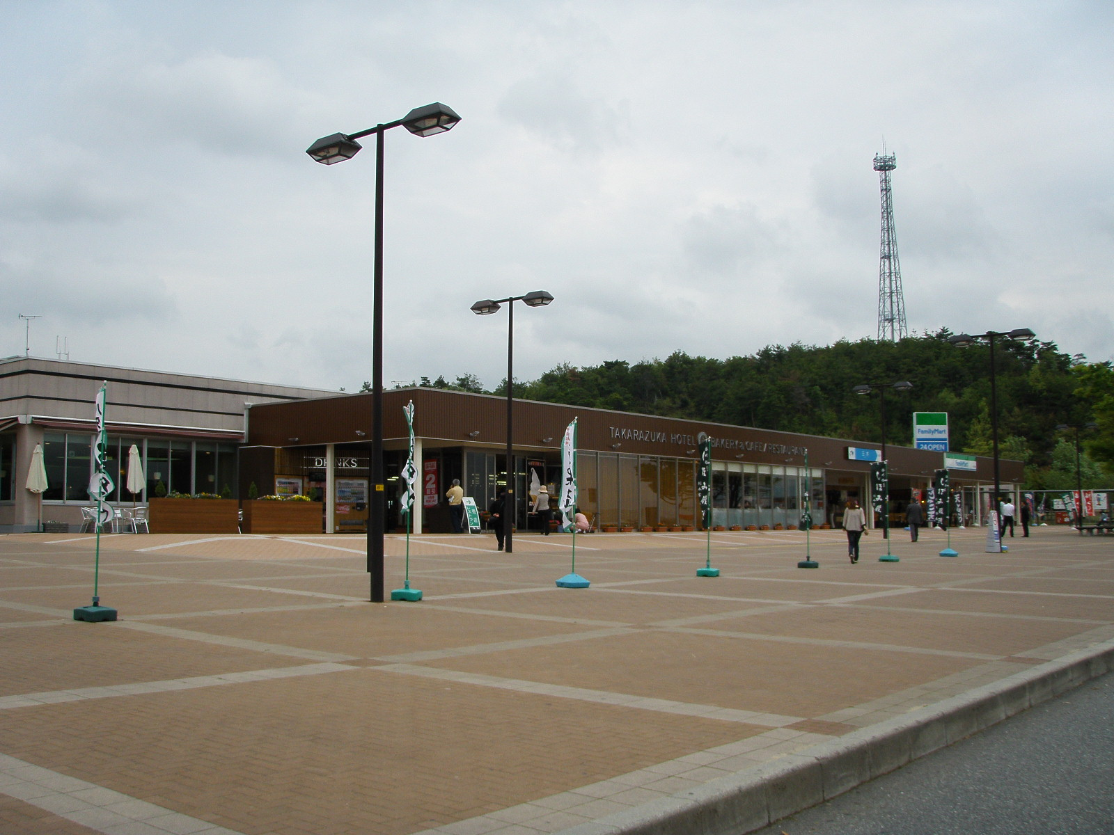 Sanyo Expressway Miki Service Area